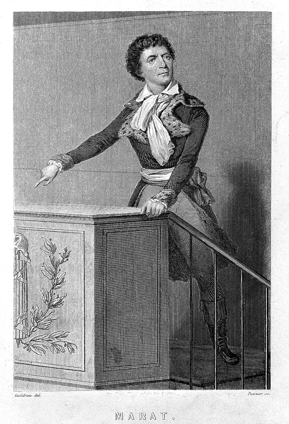 Portrait of Marat making a speech; n.d. Iconographic Collections Keywords: French Revolution, 1789; France; Jean Paul Marat; Charlotte Corday; Gildrau; Pannier